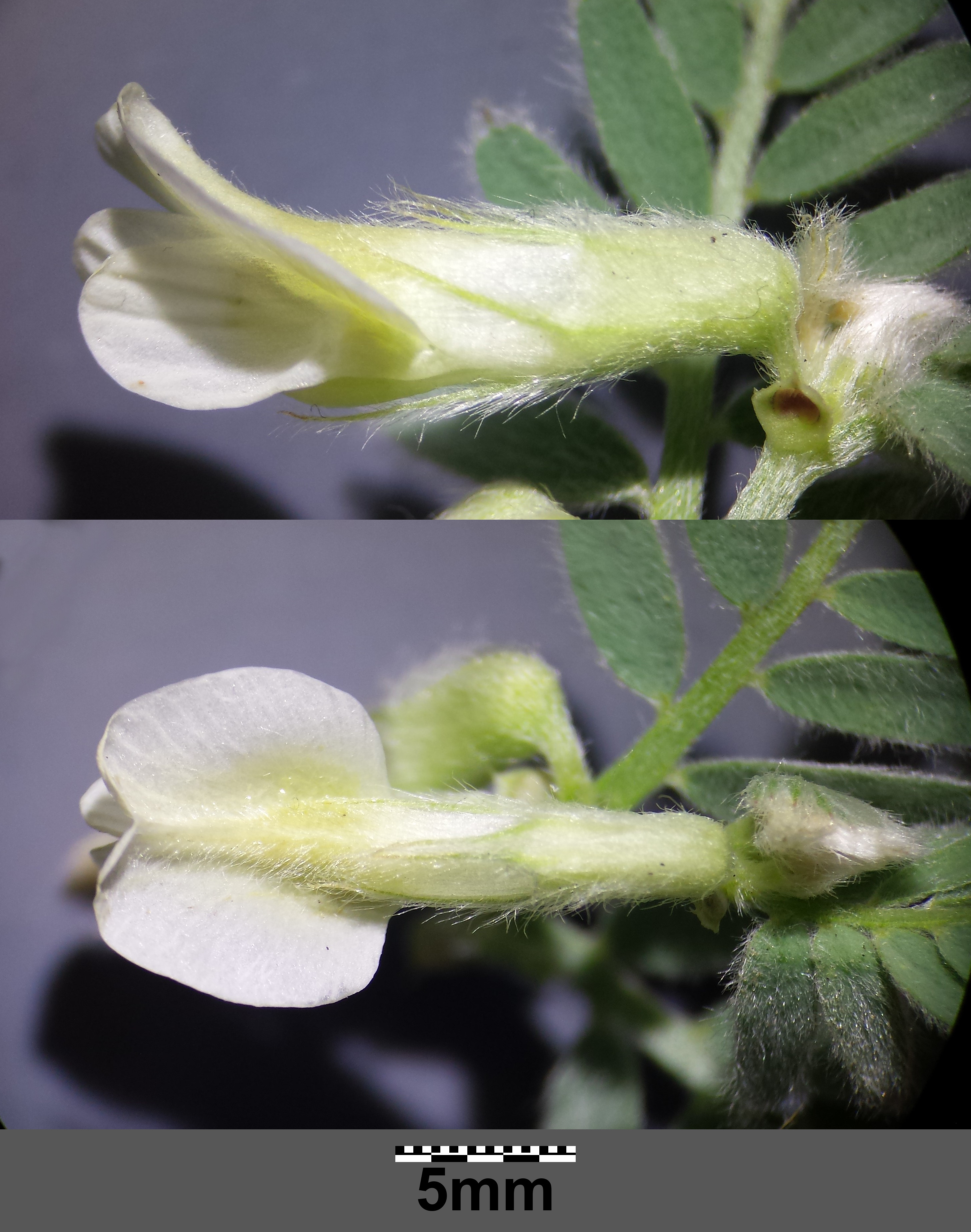 Flower (leg.: 2015-06-14) Taxonym: Vicia pannonica subsp. pannonica ss Fischer et al. EfÖLS 2008 ISBN 978-3-85474-187-9 Location: Leiser Berge, district Korneuburg, Lower Austria - ca. 400 m a.s.l. Habitat: field